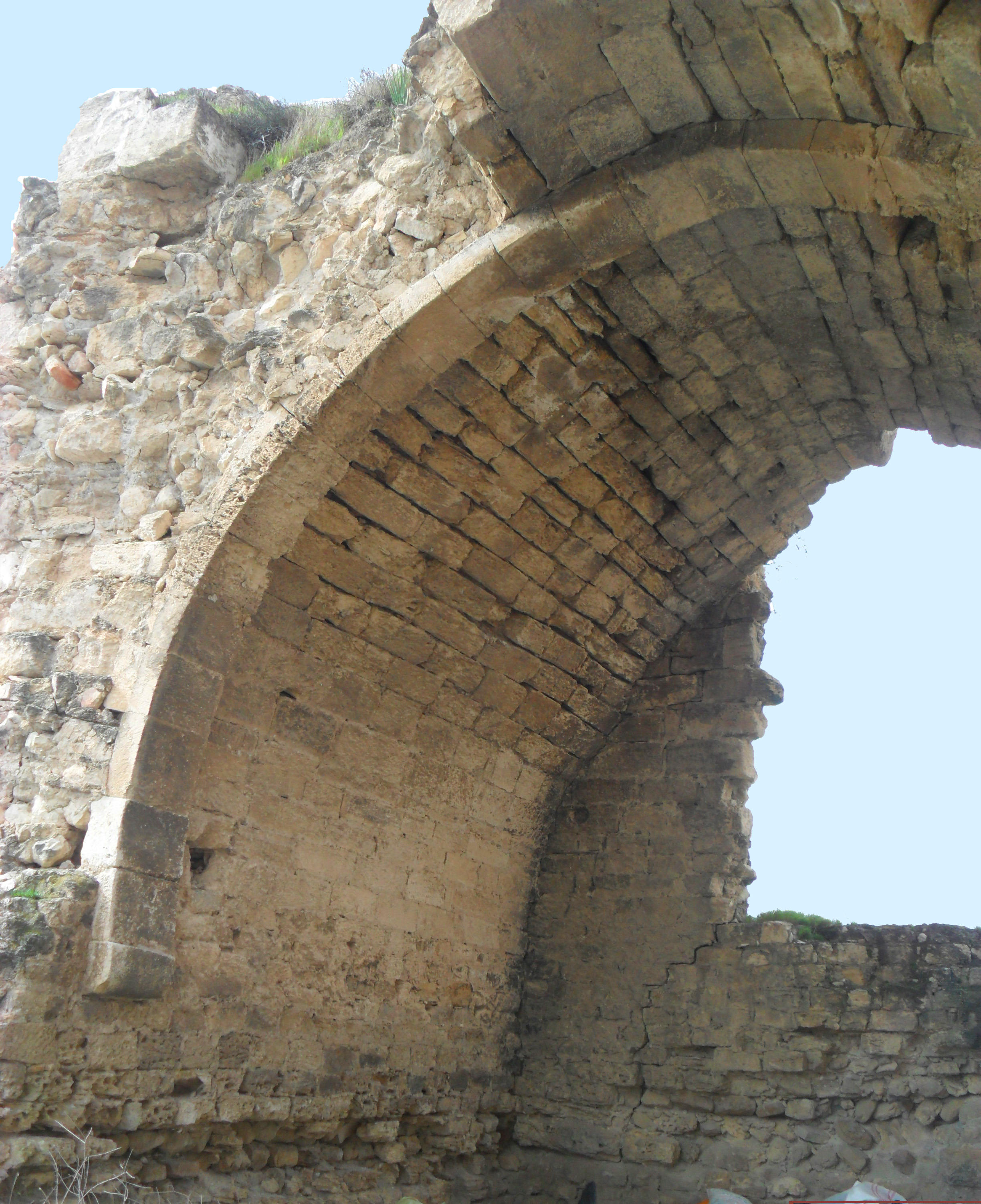 A part of Hebilli Castle ruin in Mersin Province Turkey